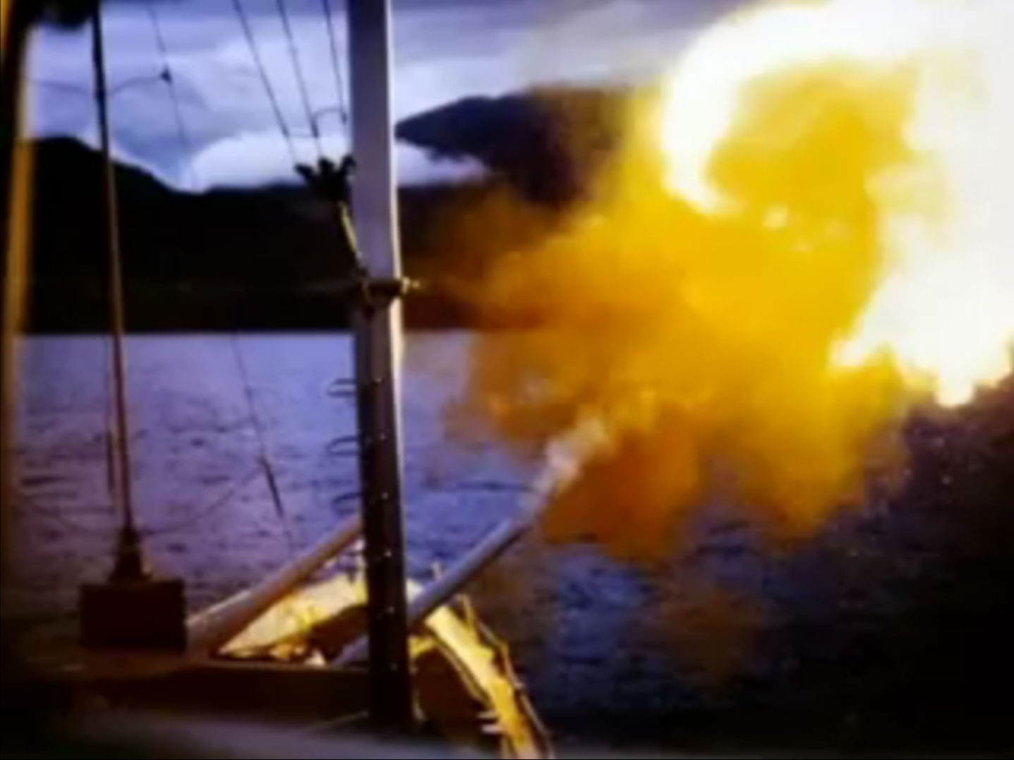 The forward gun turret ("mount 51") aboard the U.S. Navy destroyer USS Hanson (DD-832) firing on shore targets in Vietnam, in 1972.